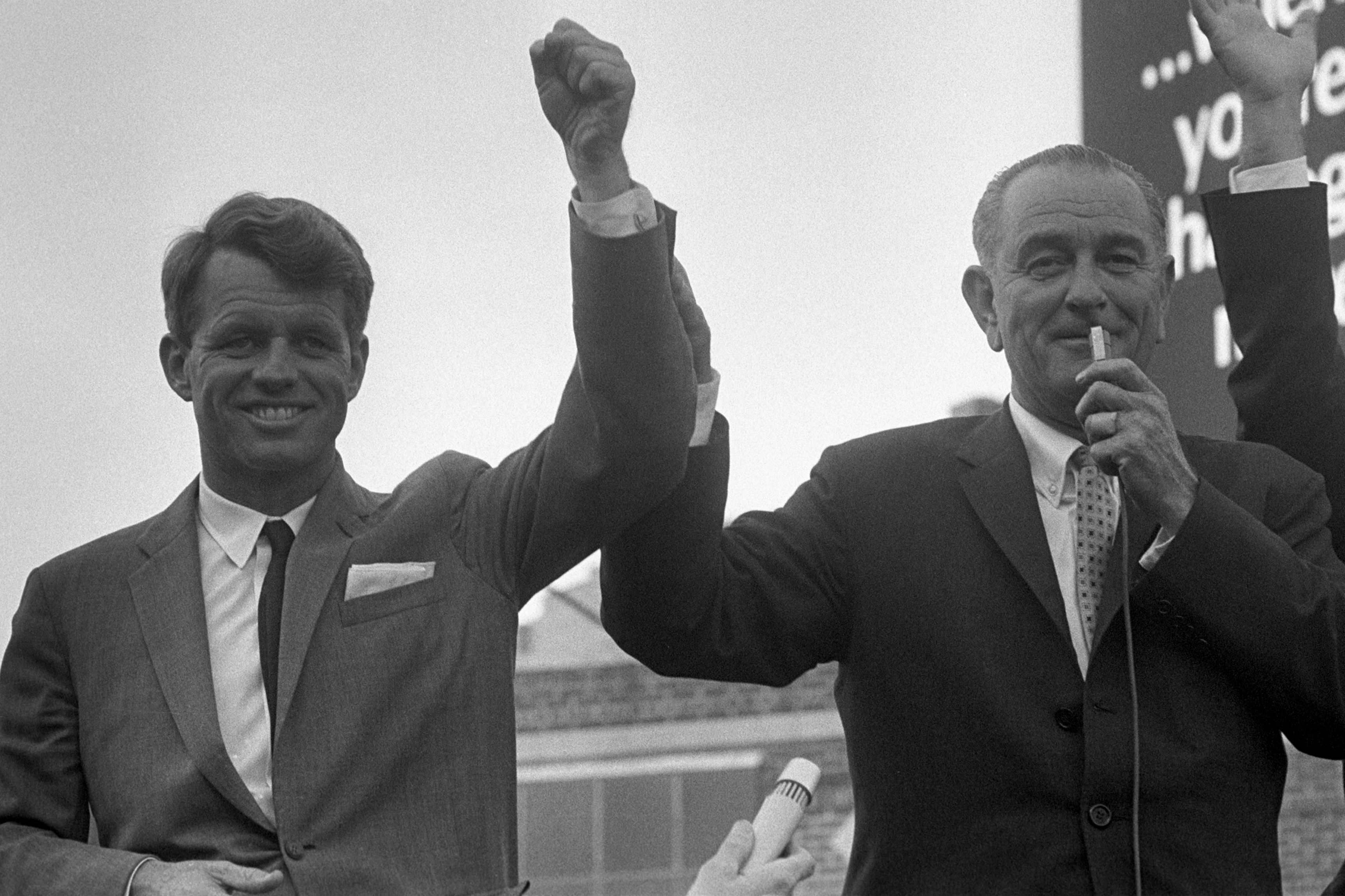 President Lyndon B. Johnson and Robert F. Kennedy campaigning in New York, 1964